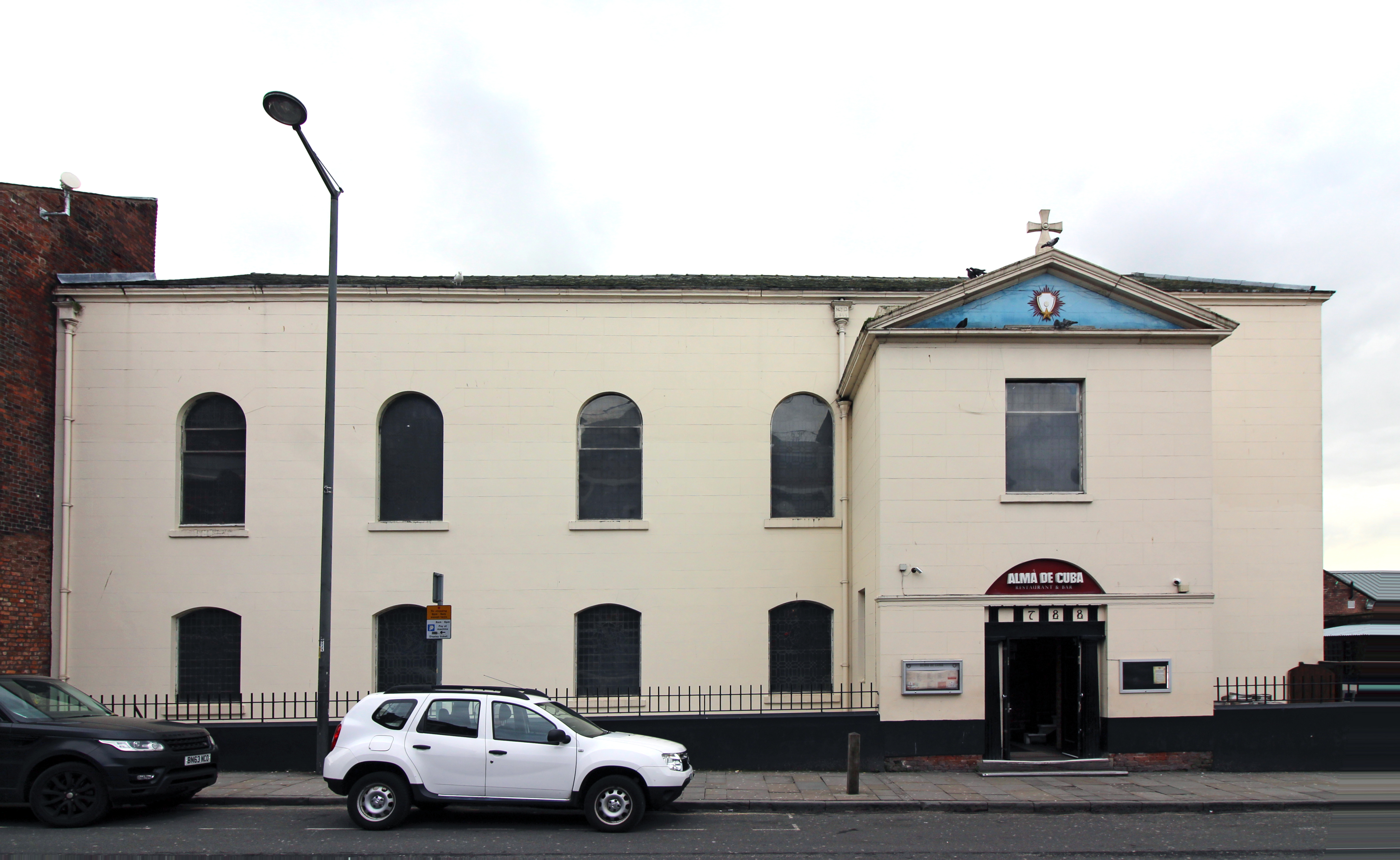 North side, on Seel Street. St Peter's was the oldest Catholic church in Liverpool and is Grade II listed. Now converted into a restaurant and bar, Alma de Cuba, it retains many original features, especially stained glass and sanctuary.